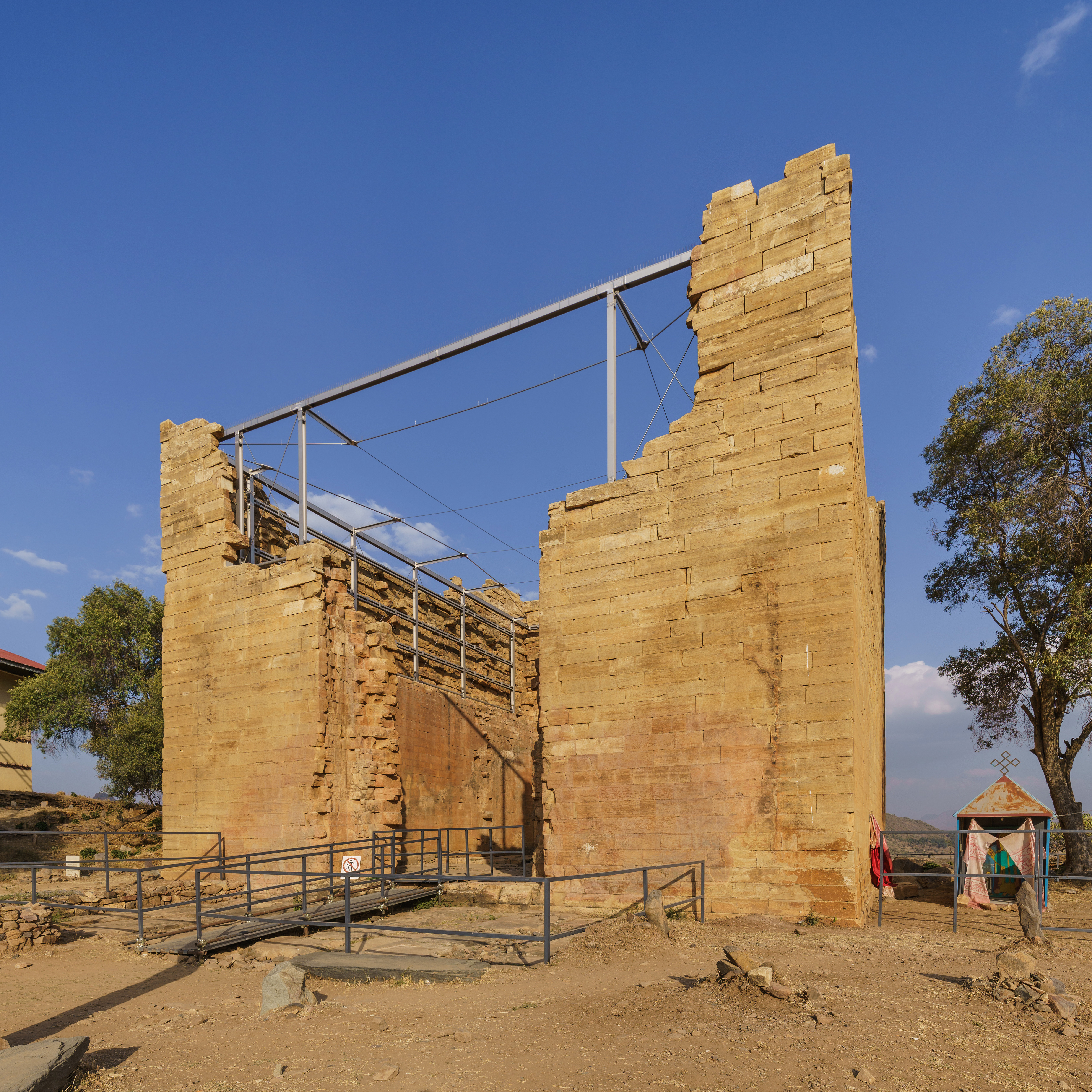 Ruins of ancient temple in the monastery of Yeha in Tigray Region, Ethiopia